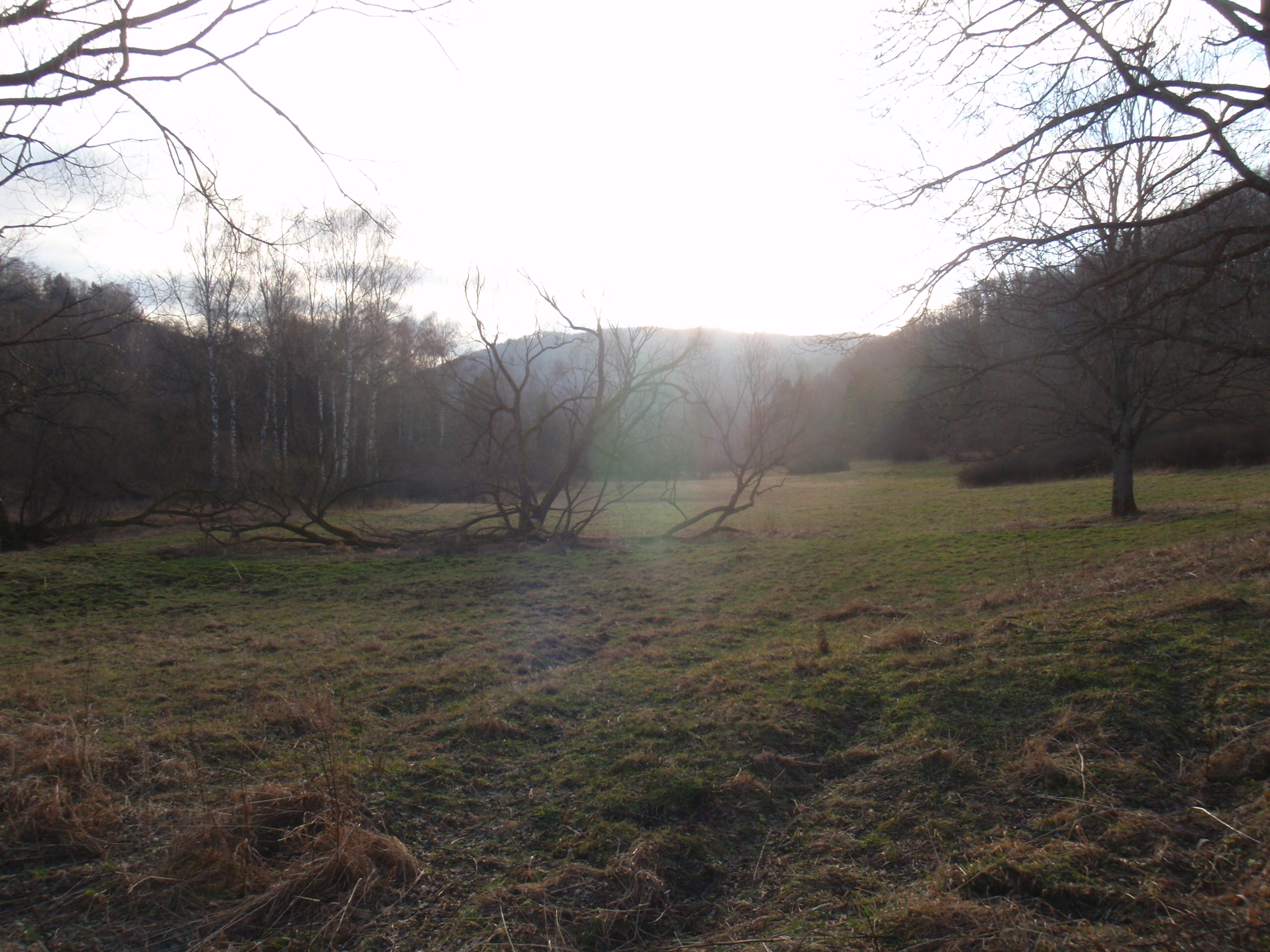 General view of Tworylczyk stream valley where Tworylczyk village one stood